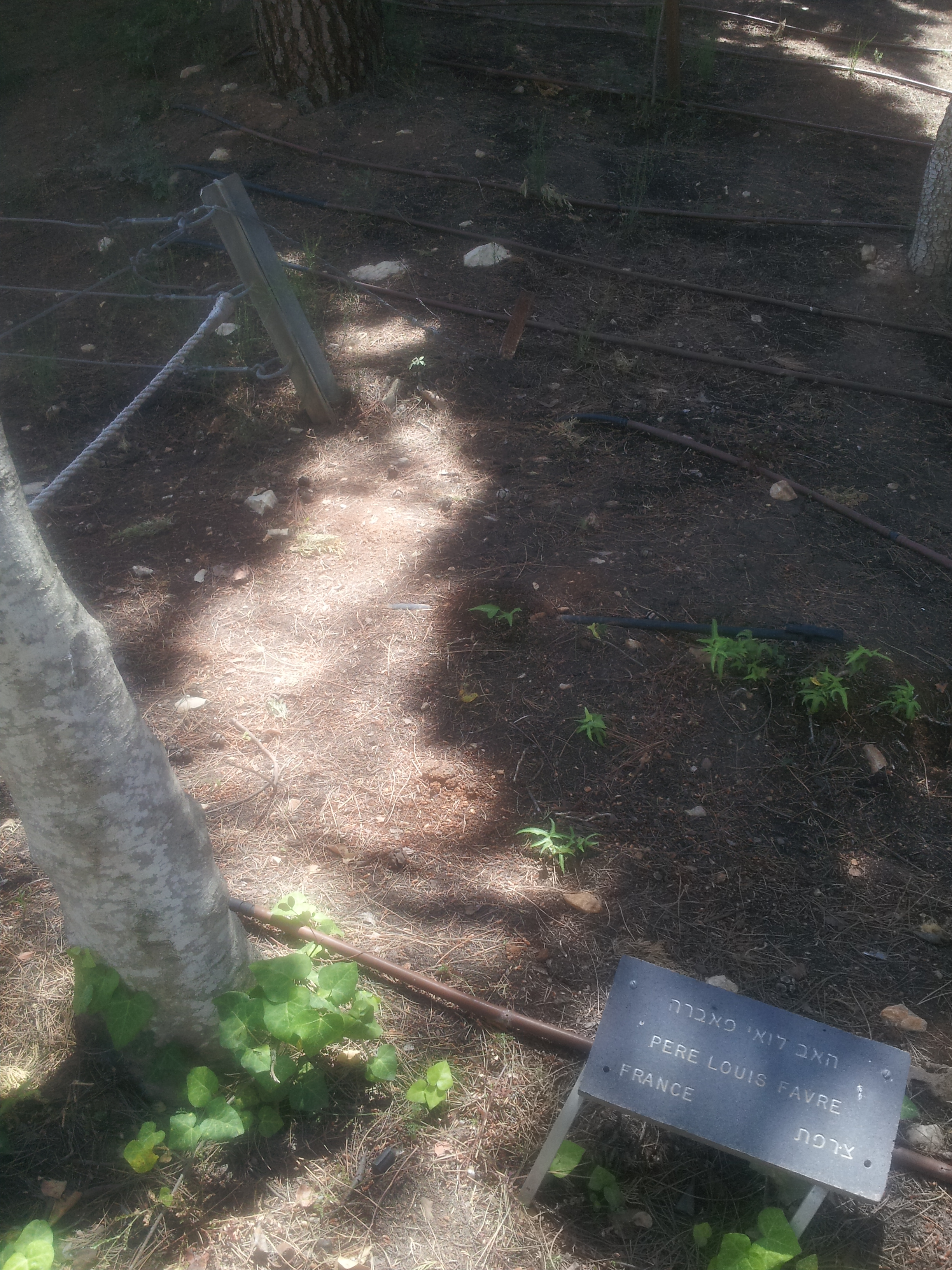 Righteous Among the nations Louis Favre tree at Yad Vashem